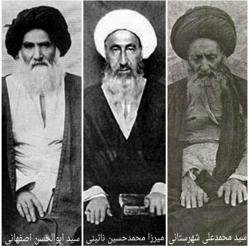 SHAHRESTANI&NAEINI&ESFEHANI